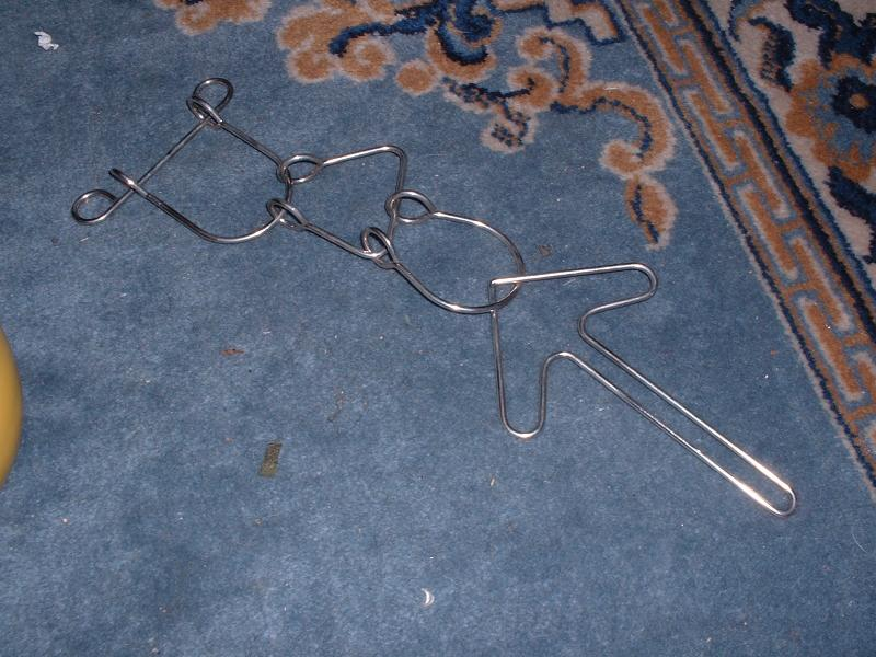 A wire puzzle in assembled form. Taken by User:aarchiba.